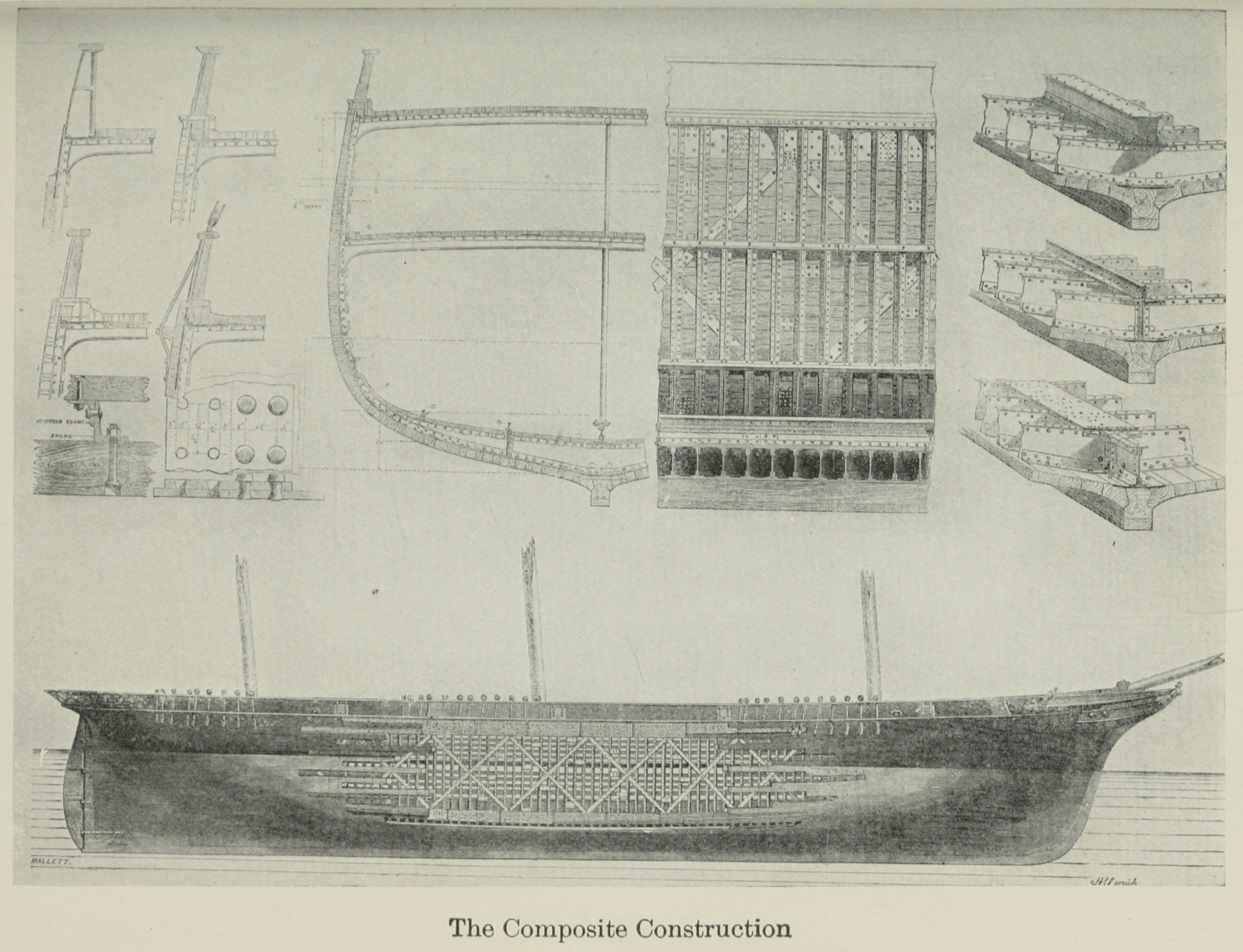 image name and page number from caption